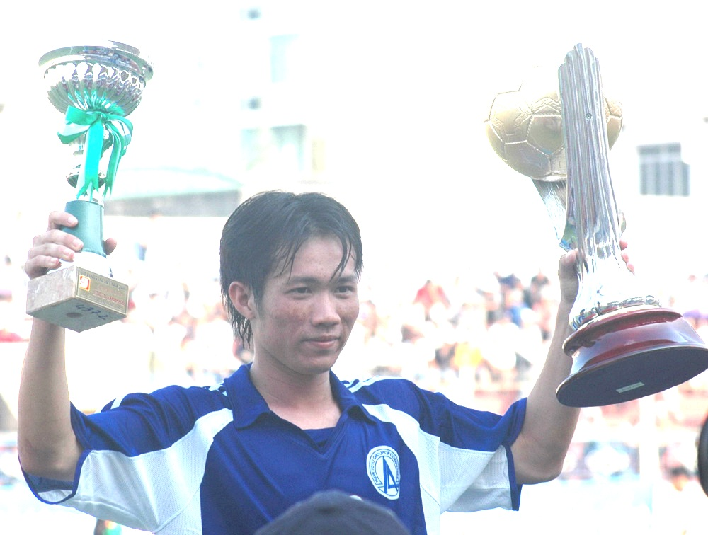 Vietnam National and Khanh Hoa footballer Le Tan Tai when receiving "The best young player award 2005" and "Vietnam Bronze Ball 2005" in 2006.